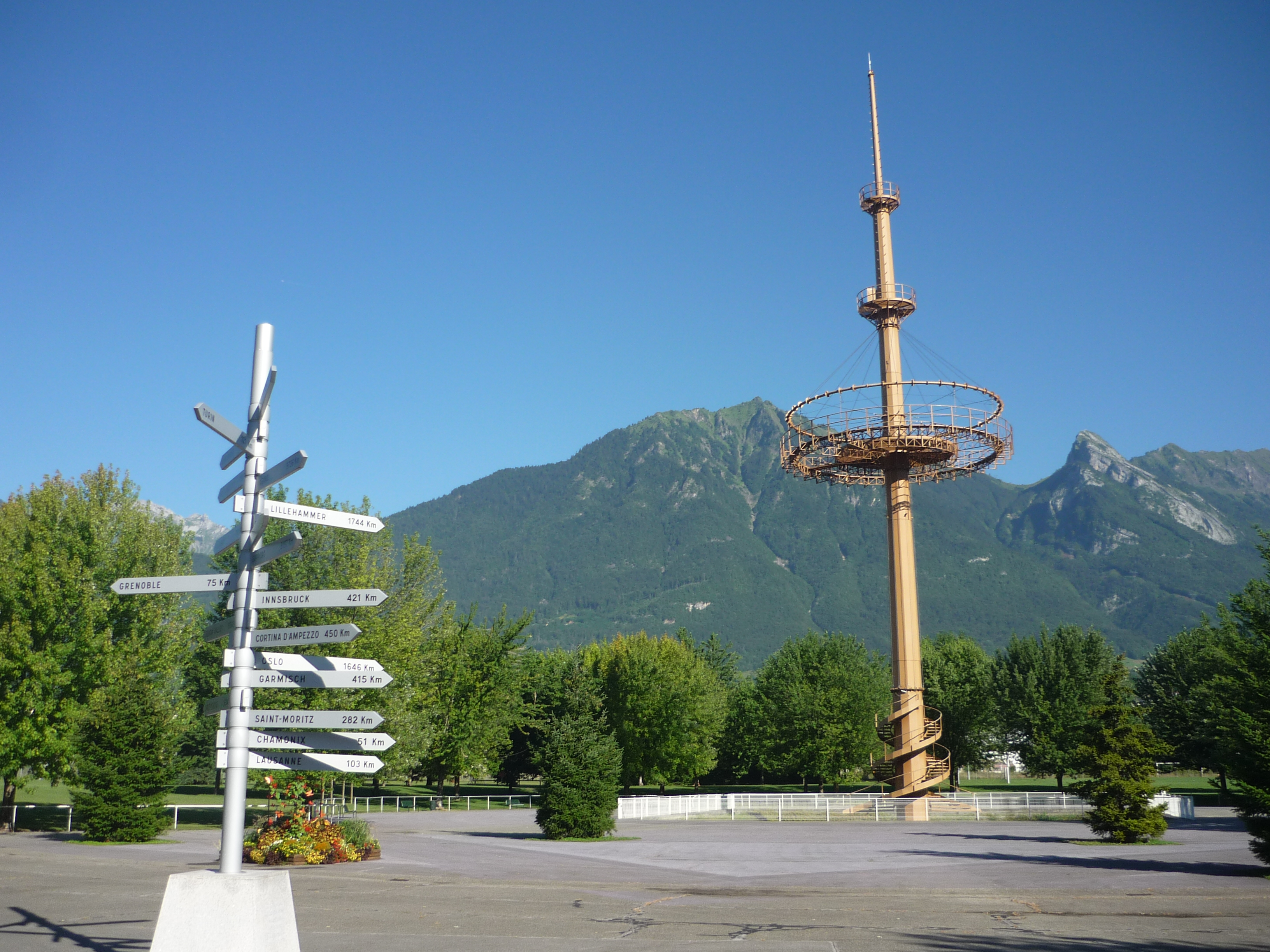 Pylon of the 1992 Winter Olympics with the roadsign of the others winter olympics cities, Albertville, Savoie, France